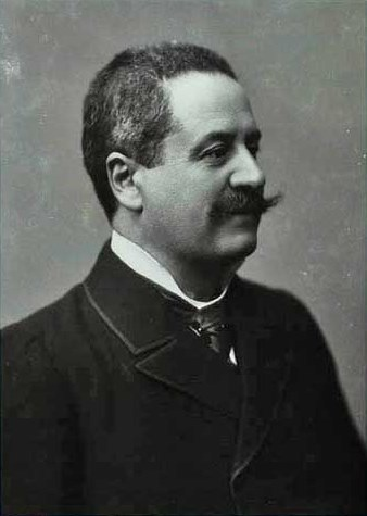 Francis James Zachariae (1852-1936), Danish merchant, industrialist, and publisher